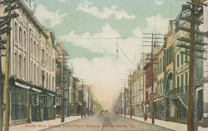 South Main Street, from Public Square, Wilkes-Barre, Pennsylvania, United States.